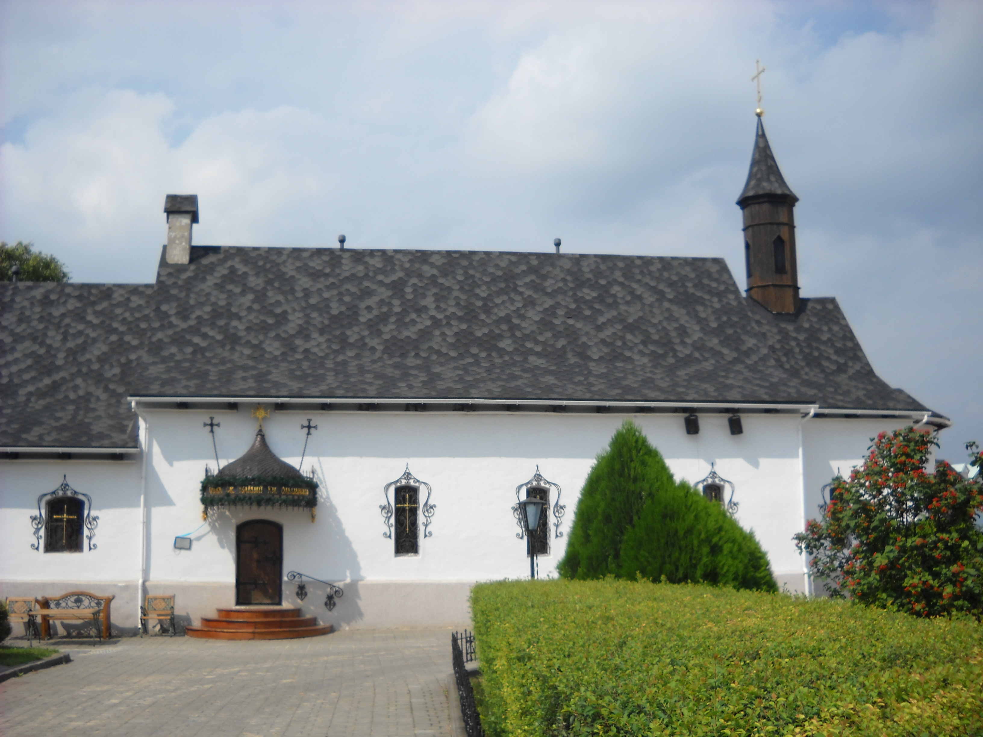 Church of St. Yulianna in Zimne Monastery, a former refectory church